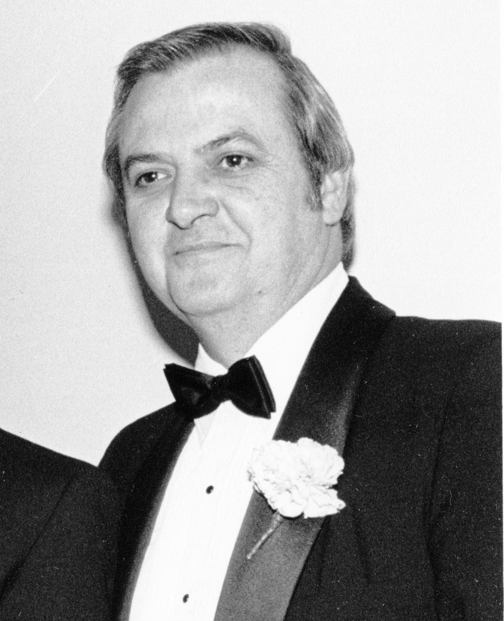 Title: Mayor Raymond L. Flynn, Speaker of the House of Representatives Thomas McGee (C) Representative Michael F. Flaherty (R) Creator: Mayor's Office - City Photographer Date: circa 1984-1987 Source: Mayor Raymond L. Flynn records, Collection #0246.001 File name: RF_0657 Rights: Copyright City of Boston Citation: Mayor Raymond L. Flynn records, Collection #0246.001, City of Boston Archives, Boston